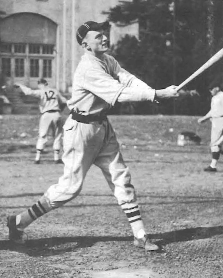 University of Oregon baseball player Wimpy Quinn in 1939